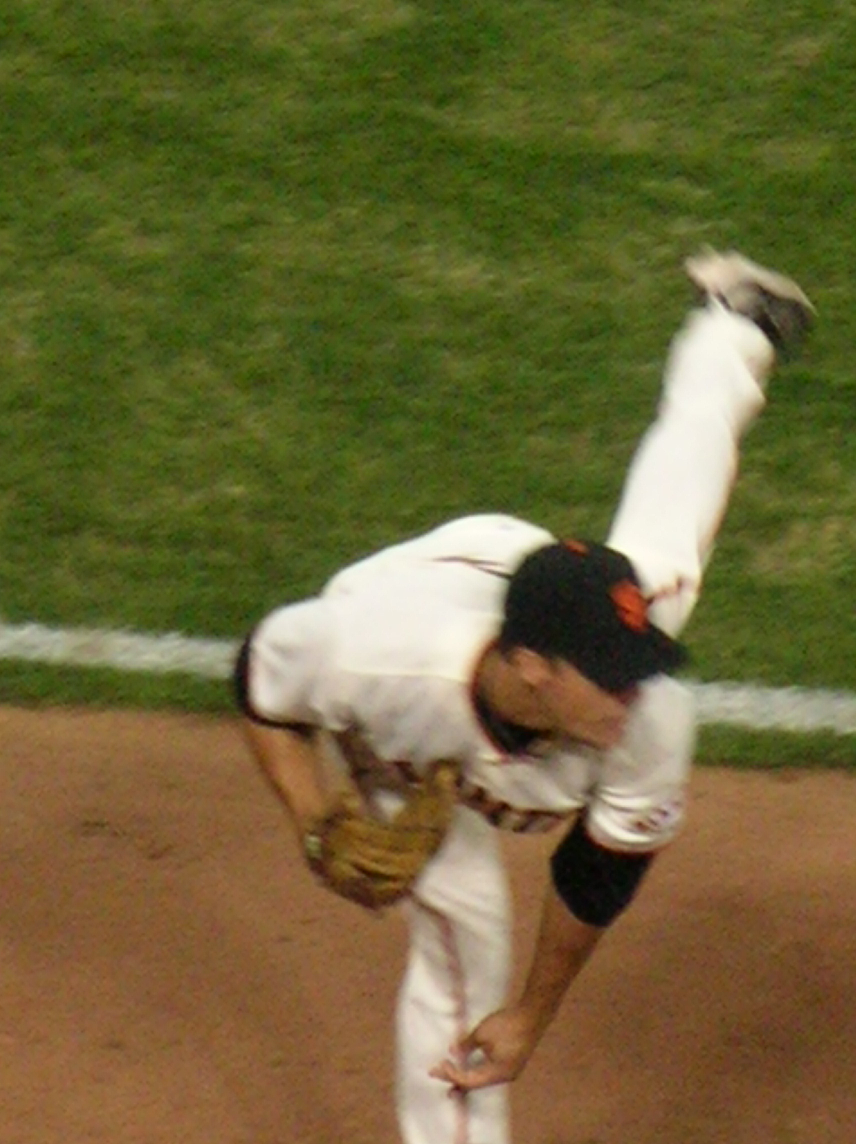 San Francisco Giants pitcher Javier López in the bullpen at a home game against the Chicago Cubs. The Cubs won 8-6.